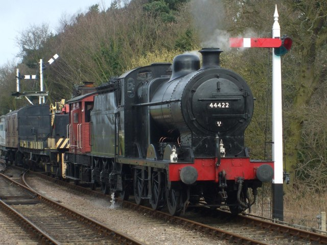 44422 on the demolition train